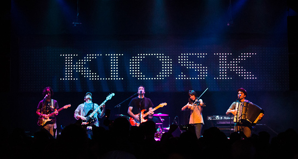 Kiosk band performing in Vancouver Other information The photographer can be contacted at